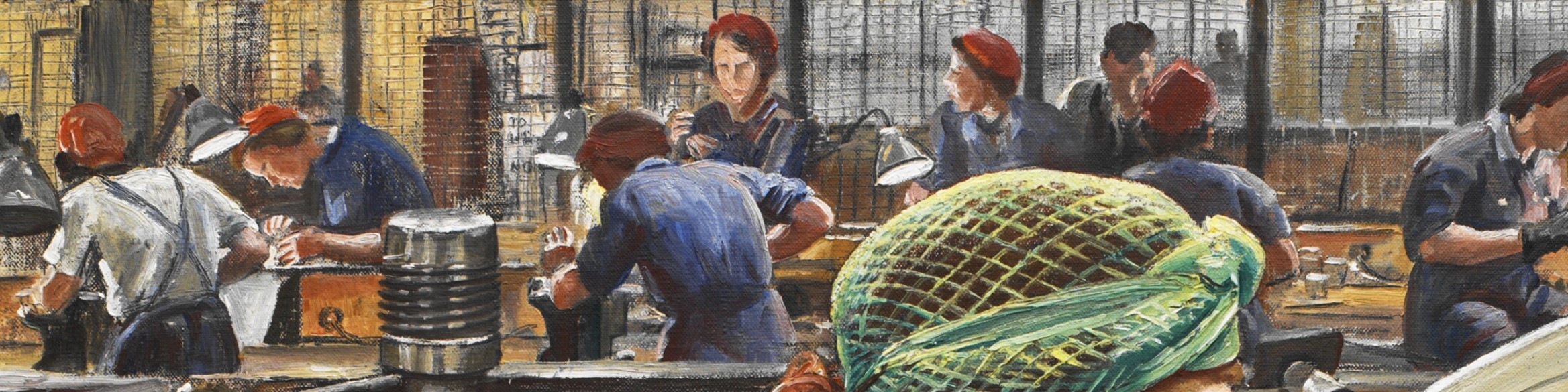 Detail from "Ruby Loftus screwing a Breech-ring"